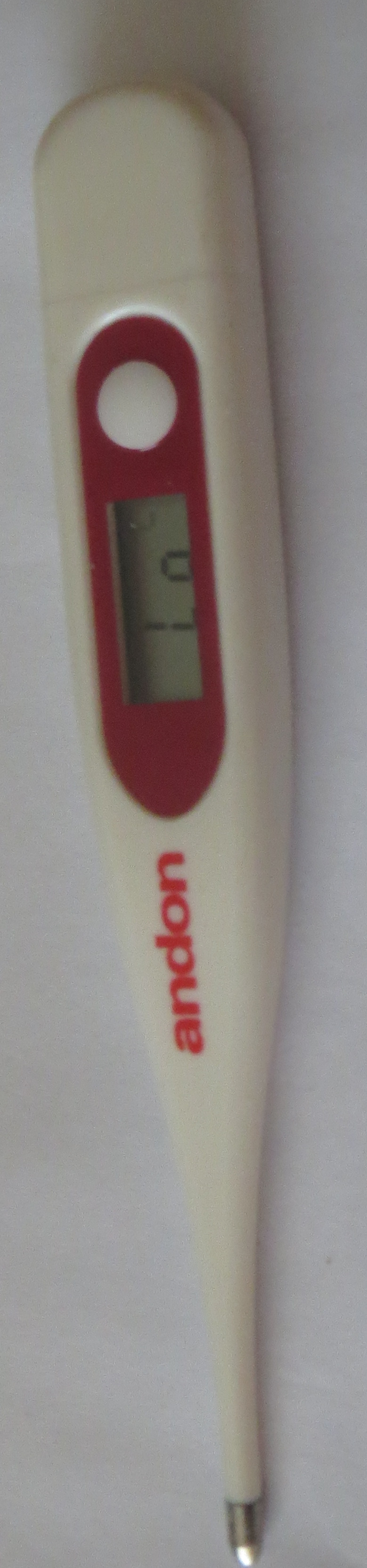 Febertermometer